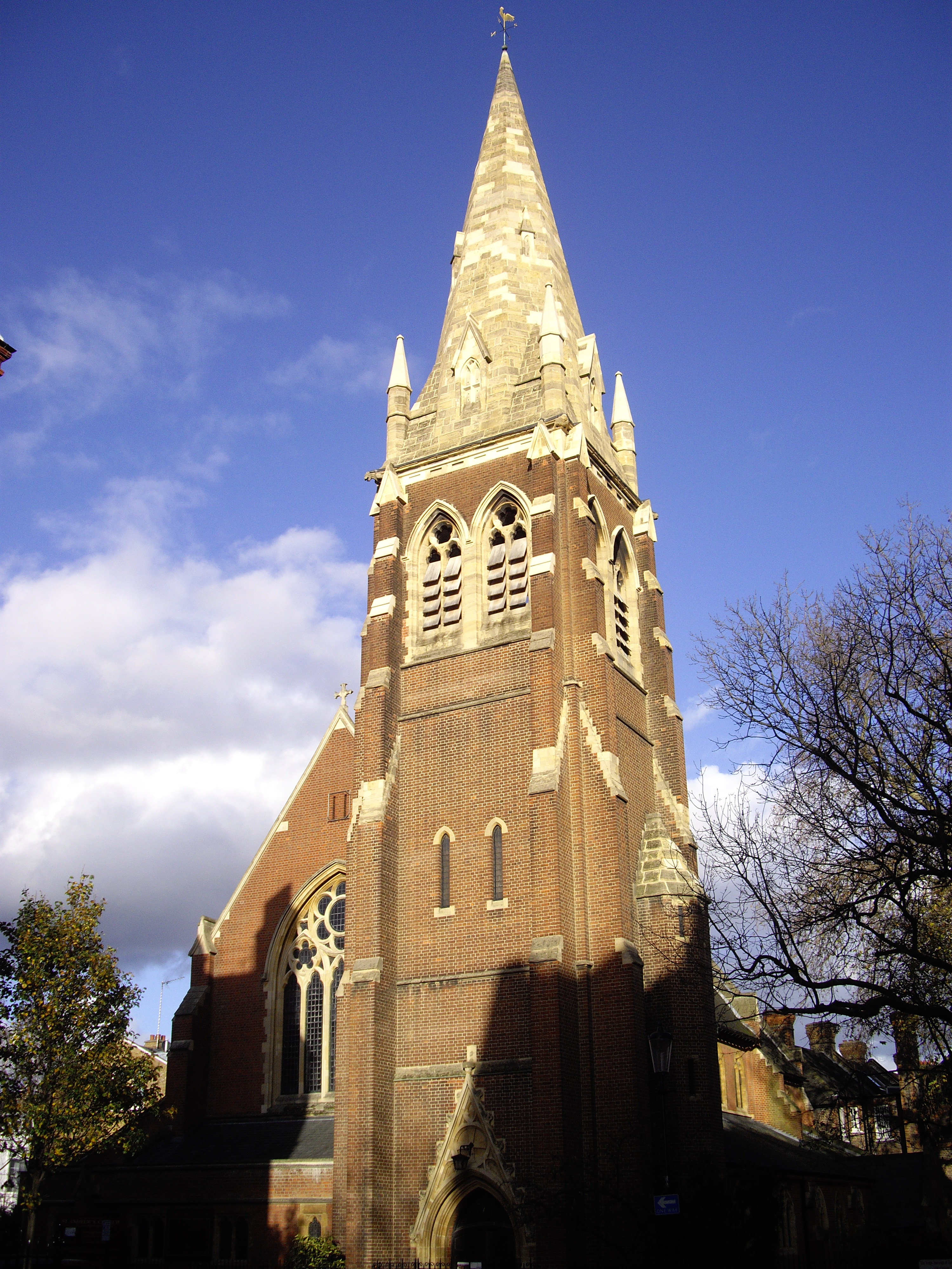 St Andrew's parish church, Park Walk, Chelsea, London, seen from the south from Camera Place